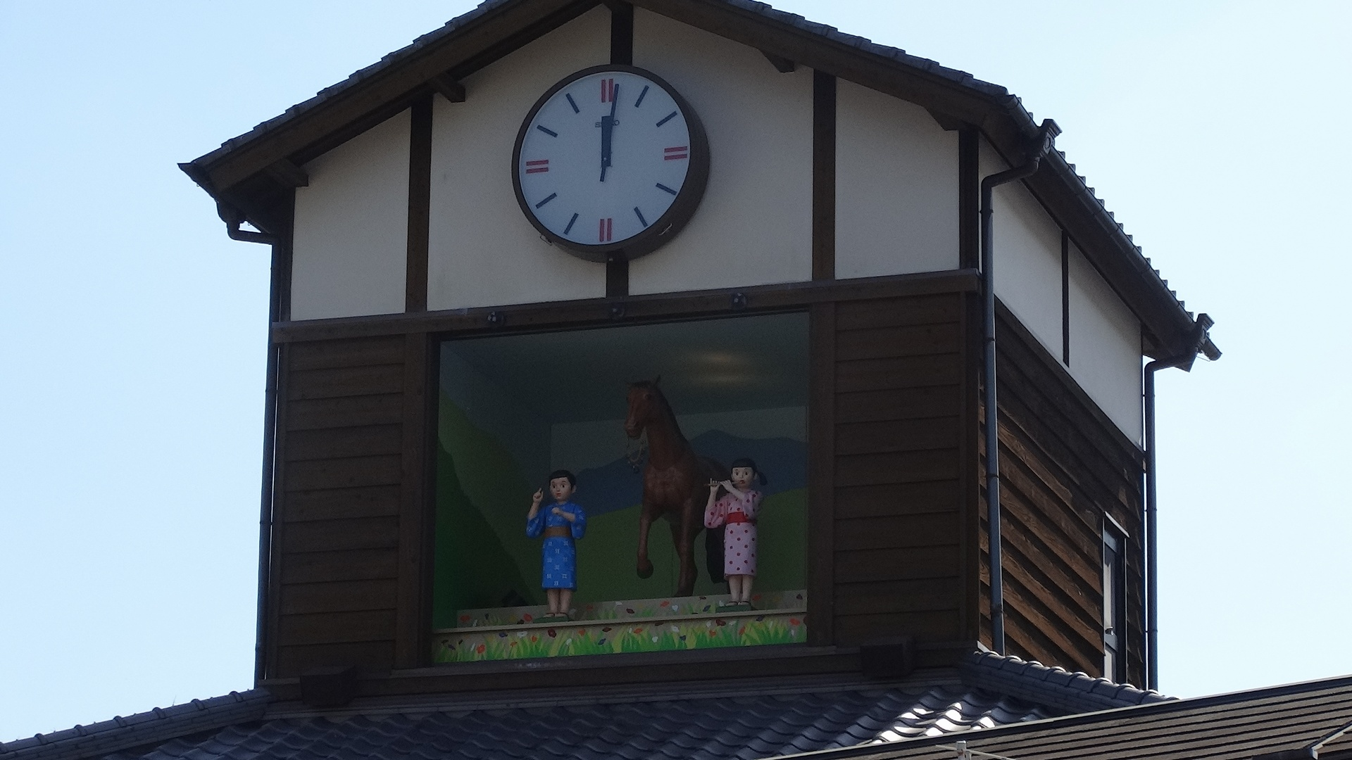 Marionette clock at Michinoeki Kitagawa Hayuma in Kitagawacho, Nobeoka City, Miyazaki Prefecture, Japan